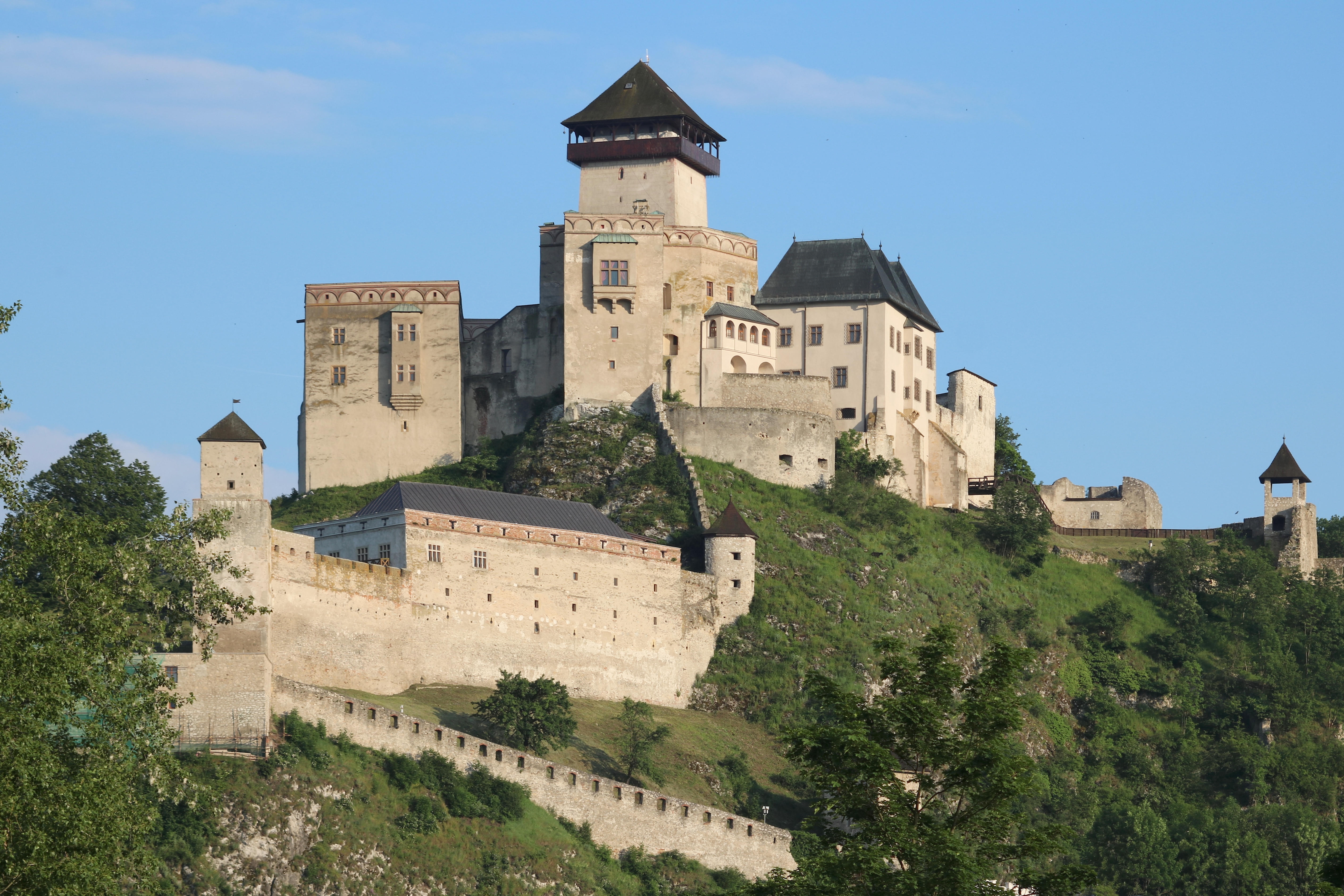 Trenčín Castle from Vah river